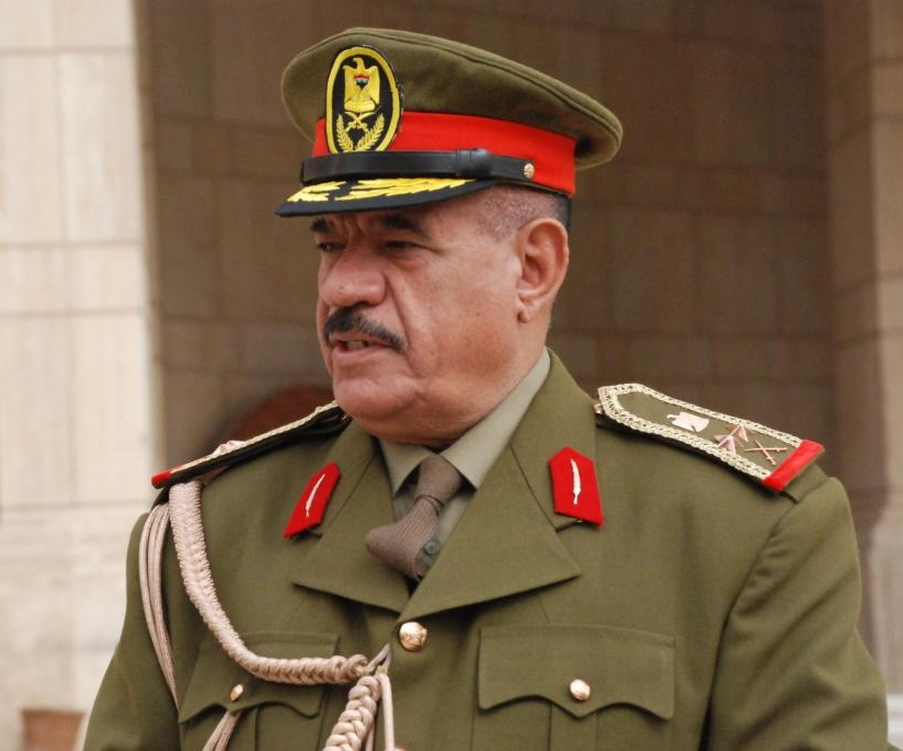 Personal photo of General Abboud Qanbar